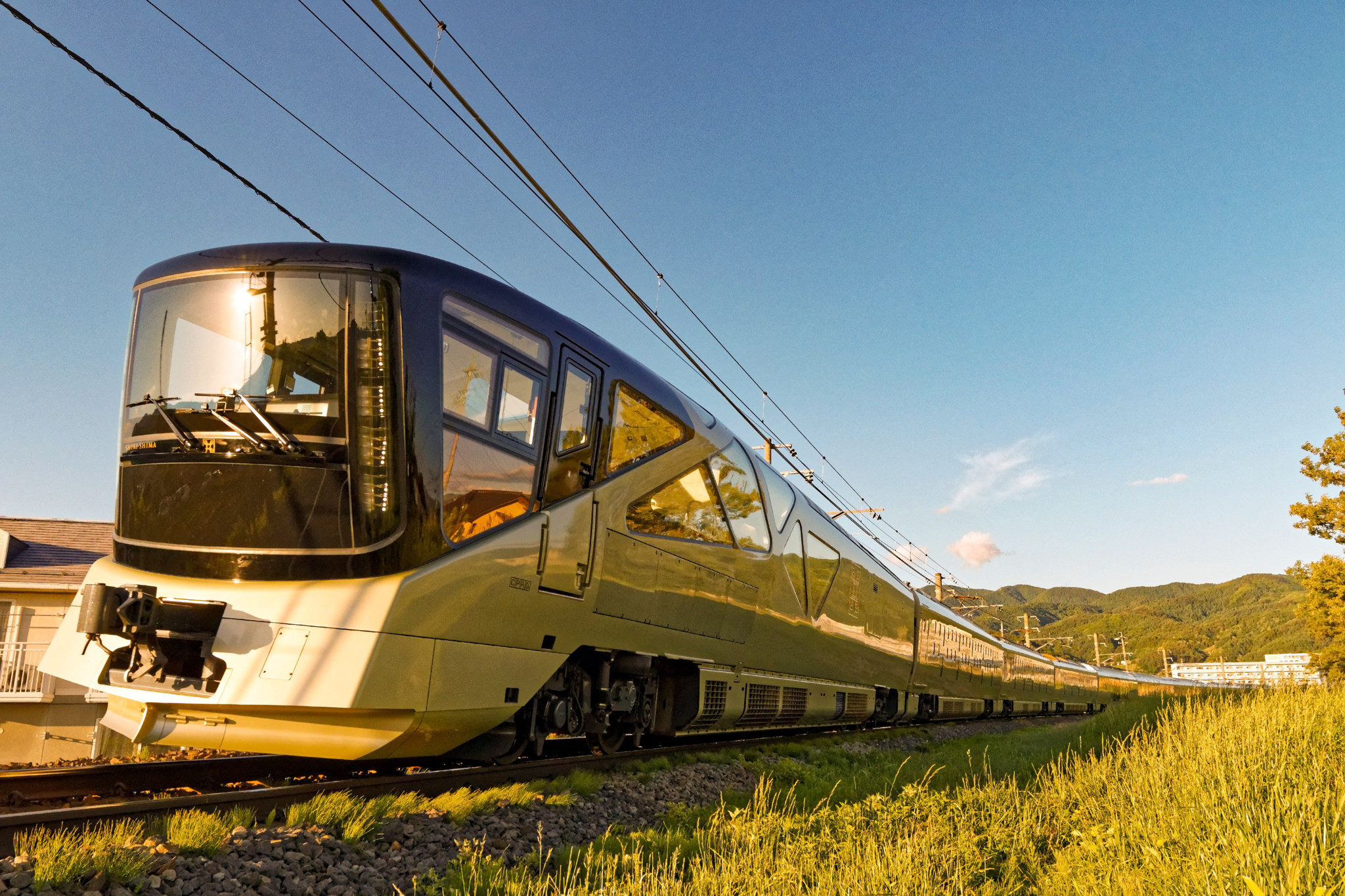 The JR East E001 series Train Suite Shiki-shima EMU between Shimo-Suwa and Okaya Station on the Chuo Main Line in Nagano Prefecture, Japan